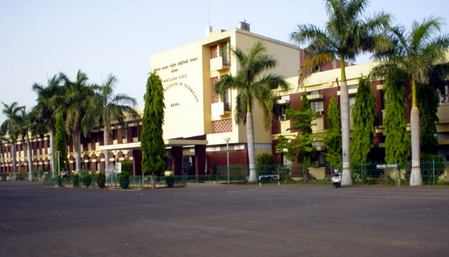 Maulana Azad National Institute of Technology